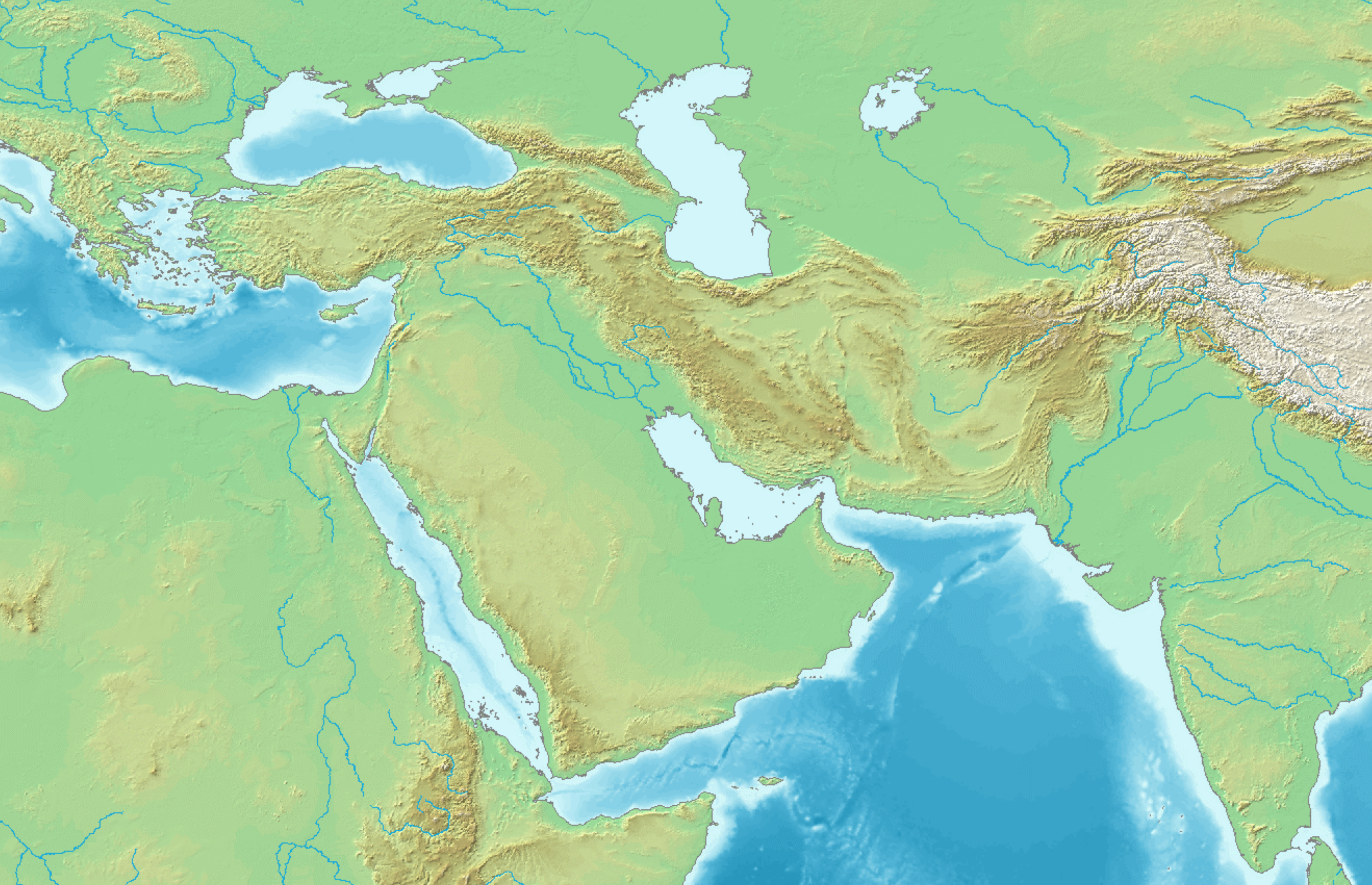 West Asia non political with water system